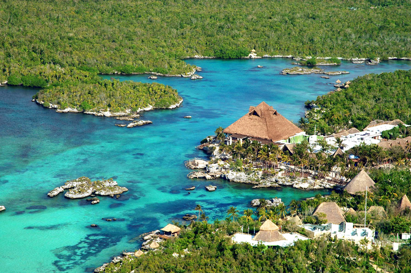 The Xel-Ha inlet is located in the Riviera Maya, next to the Caribbean Sea